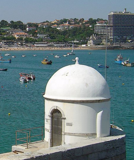 Tide gauge in Tagus river estuary, Cascais, Portugal.(version cropped)